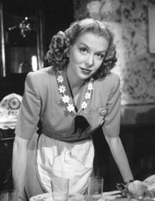 Perla Mux- actriz argentina